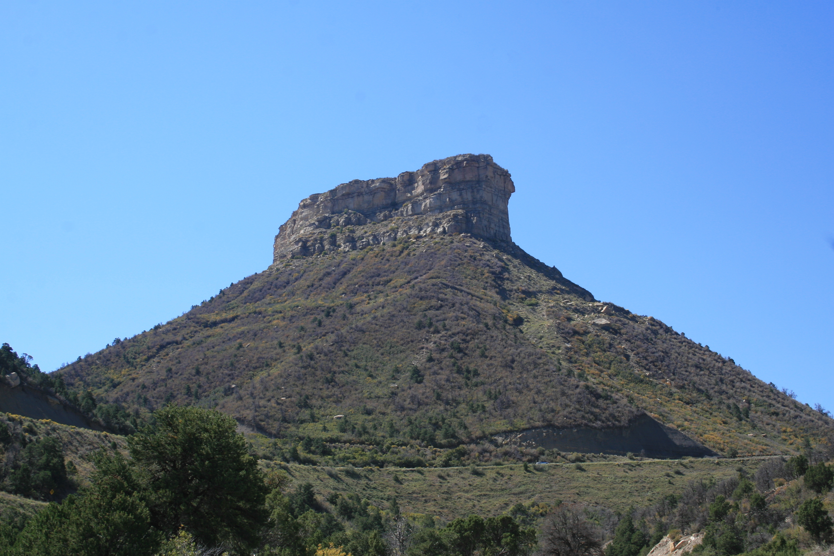 Mesa Verde National Park, Colorado Point Lookout (elevation 2569 m) as seen from the Northern entrance to the park